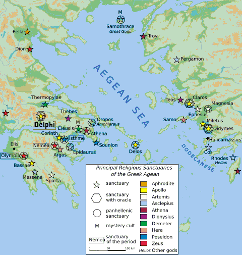 Map of the main sanctuaries of classical Greece, centered at Delphi. The excerpt map shows Delphi in bold, as center of regional Aegean map, 20x times faster than original wide-region map.